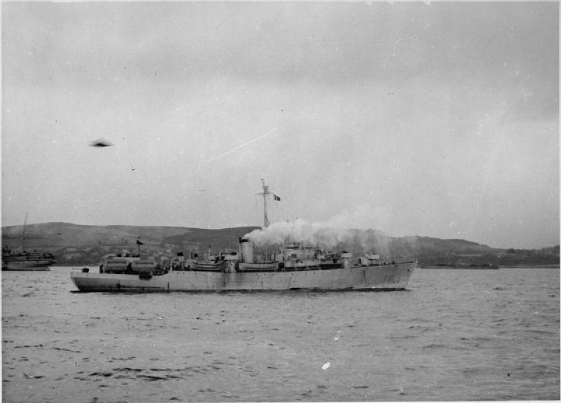 HMS Empire Rest Underway